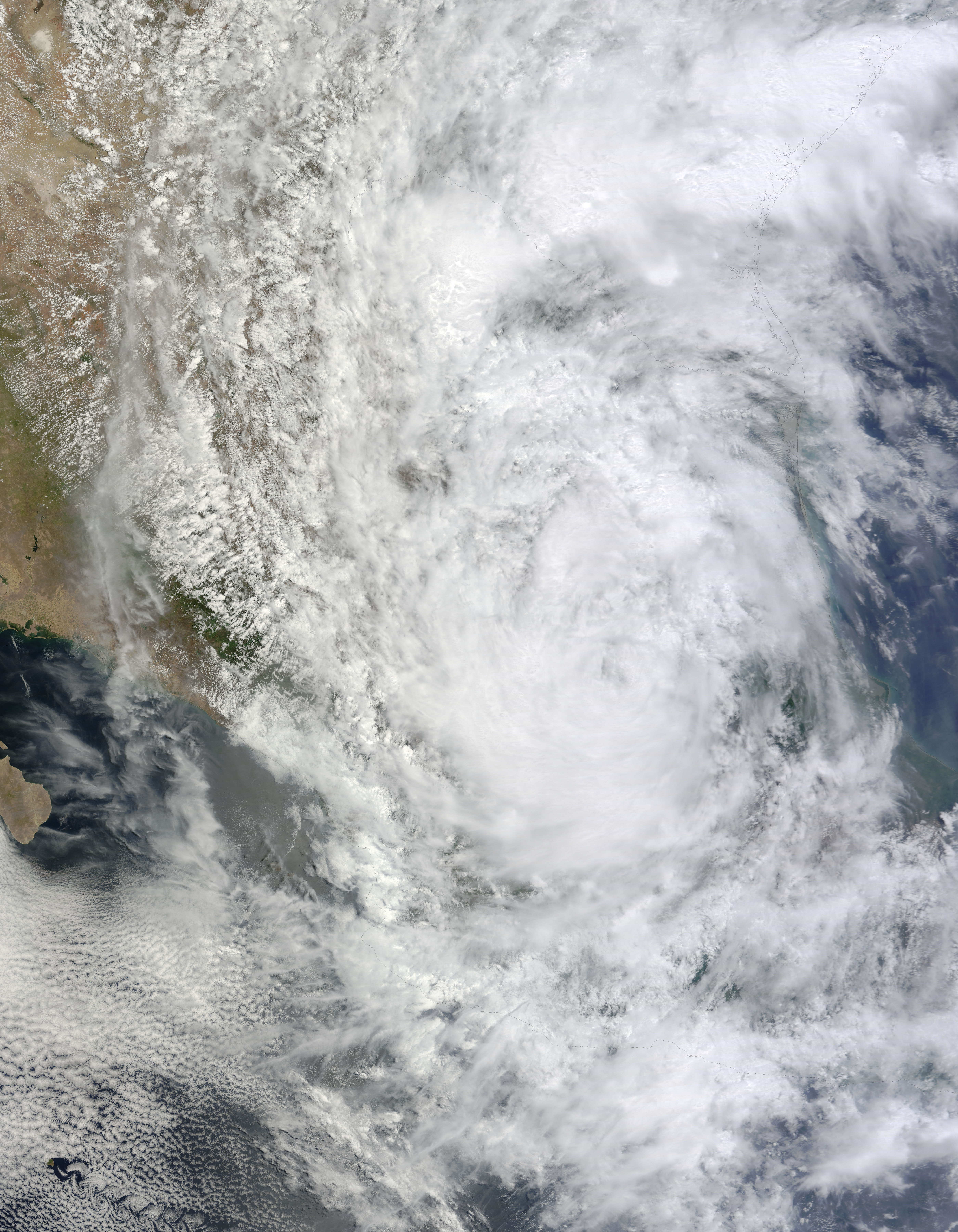 Alex had weakened to a tropical storm by the afternoon of July 1, 2010, the U.S. National Hurricane Center (NHC) reported. Located some 220 miles (355 kilometers) west of La Pesca, Mexico, the storm had maximum sustained winds of 40 miles (65 kilometers) per hour. Alex was expected to dissipate over Mexico’s high terrain overnight July 1–2, but was still bringing heavy rain to much of the country. The Moderate Resolution Imaging Spectroradiometer (MODIS) on NASA’s Terra satellite captured this natural-color image of Tropical Storm Alex at 12:55 p.m. Central Daylight Time (17:55 UTC) on July 1, 2010. Storm clouds cover most of Mexico and southwestern Texas, but Alex appears less organized than it did the previous day. North is to the upper left, and black lines delineate coasts and borders.